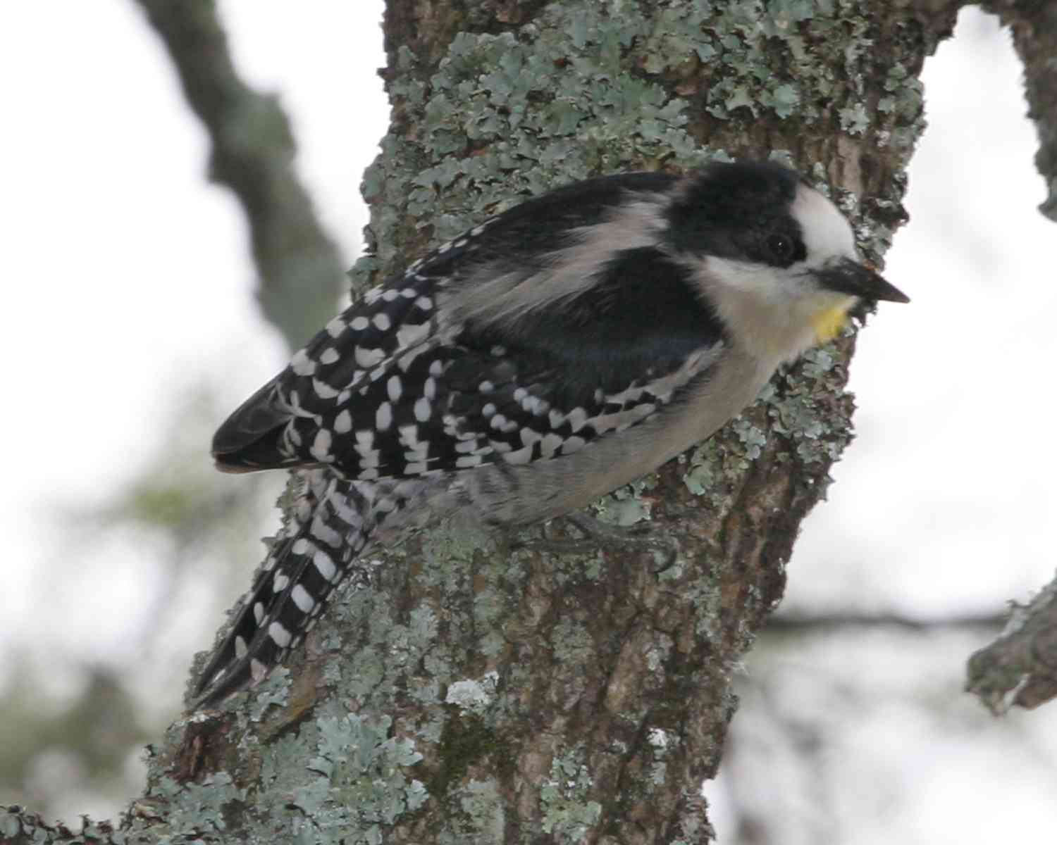 White fronted woodpecker (female) Melanerpes cactorum Location: Entre Rios, Argentina 8th. April 2006